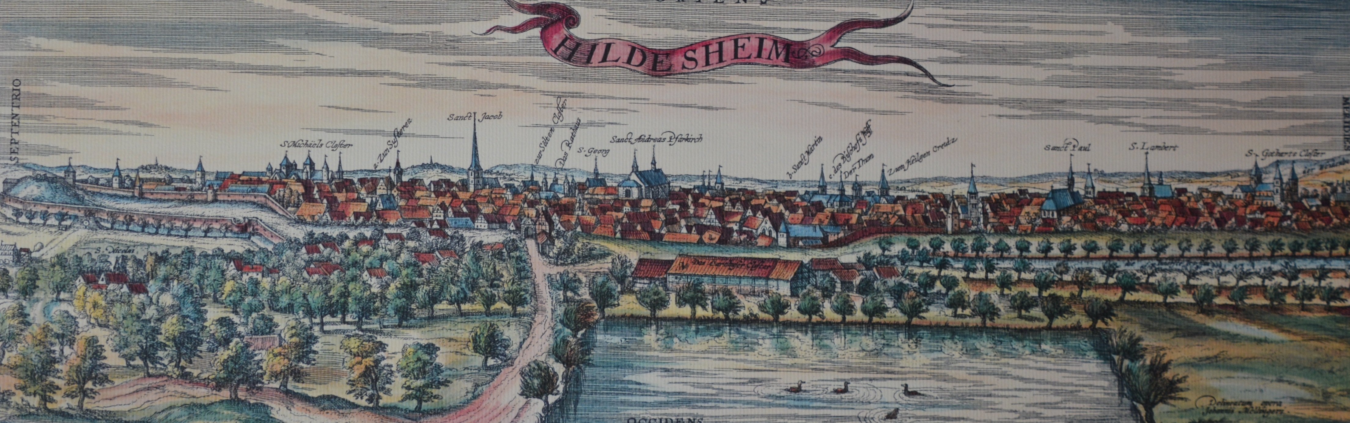 Hildesheim in Georg Braun; Frans Hogenberg: Civitates Orbis Terrarum, 1572